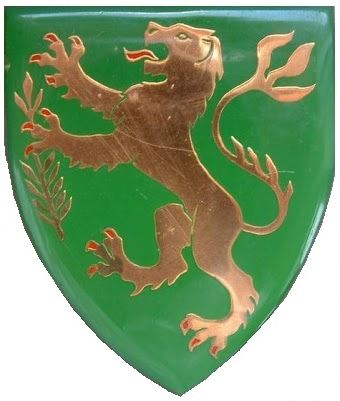 SADF Regiment Highveld shoulder flash